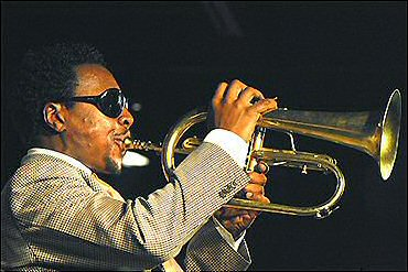 Roy Hargrove